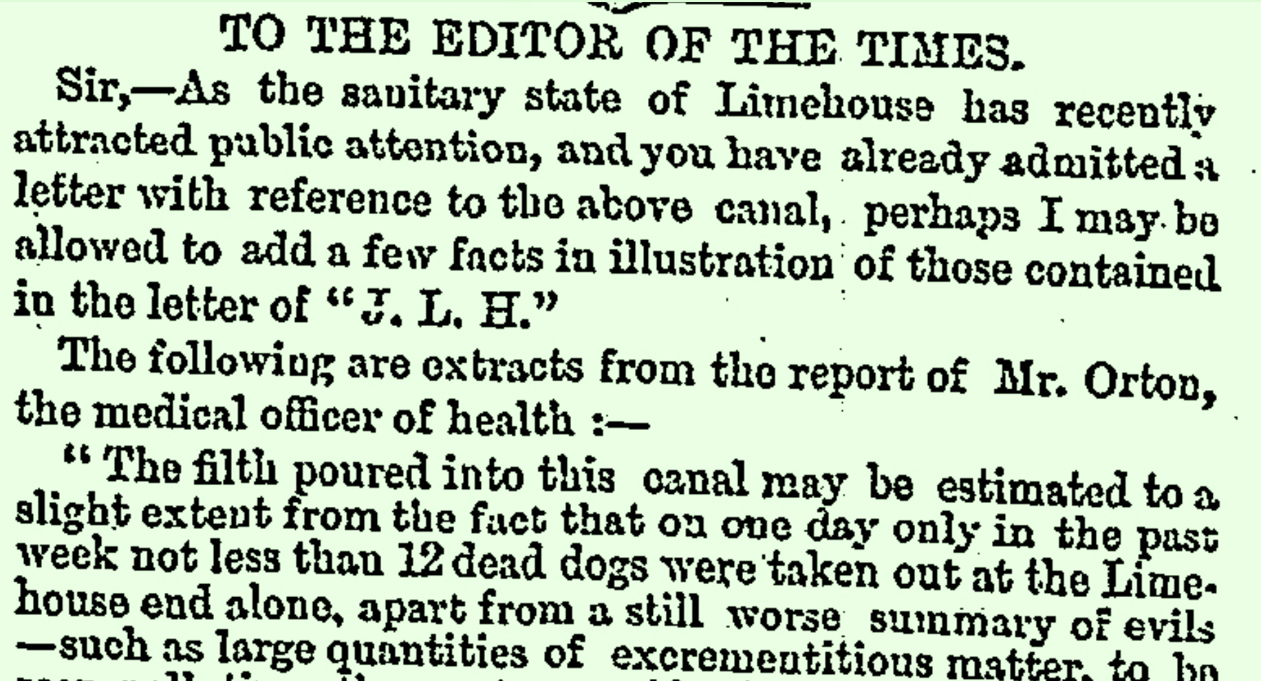 The Limehouse Cut in London's East End was polluted. Reformers sought to improve it, as in this letter extract.